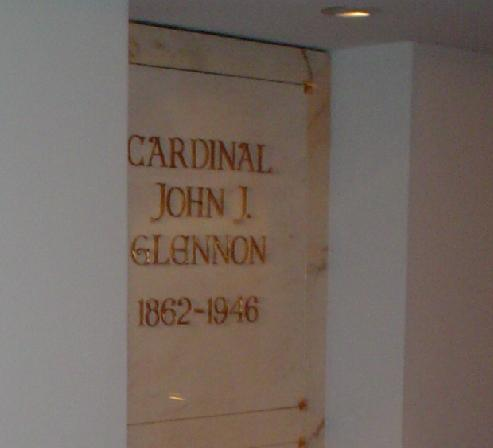 The final resting place of Cardinal John J. Glennon at the Cathedral Basilica of Saint Louis, St. Louis. He is buried in a mortuary chapel in the basement of the church, as are other leaders of the Saint Louis Archdiocese.